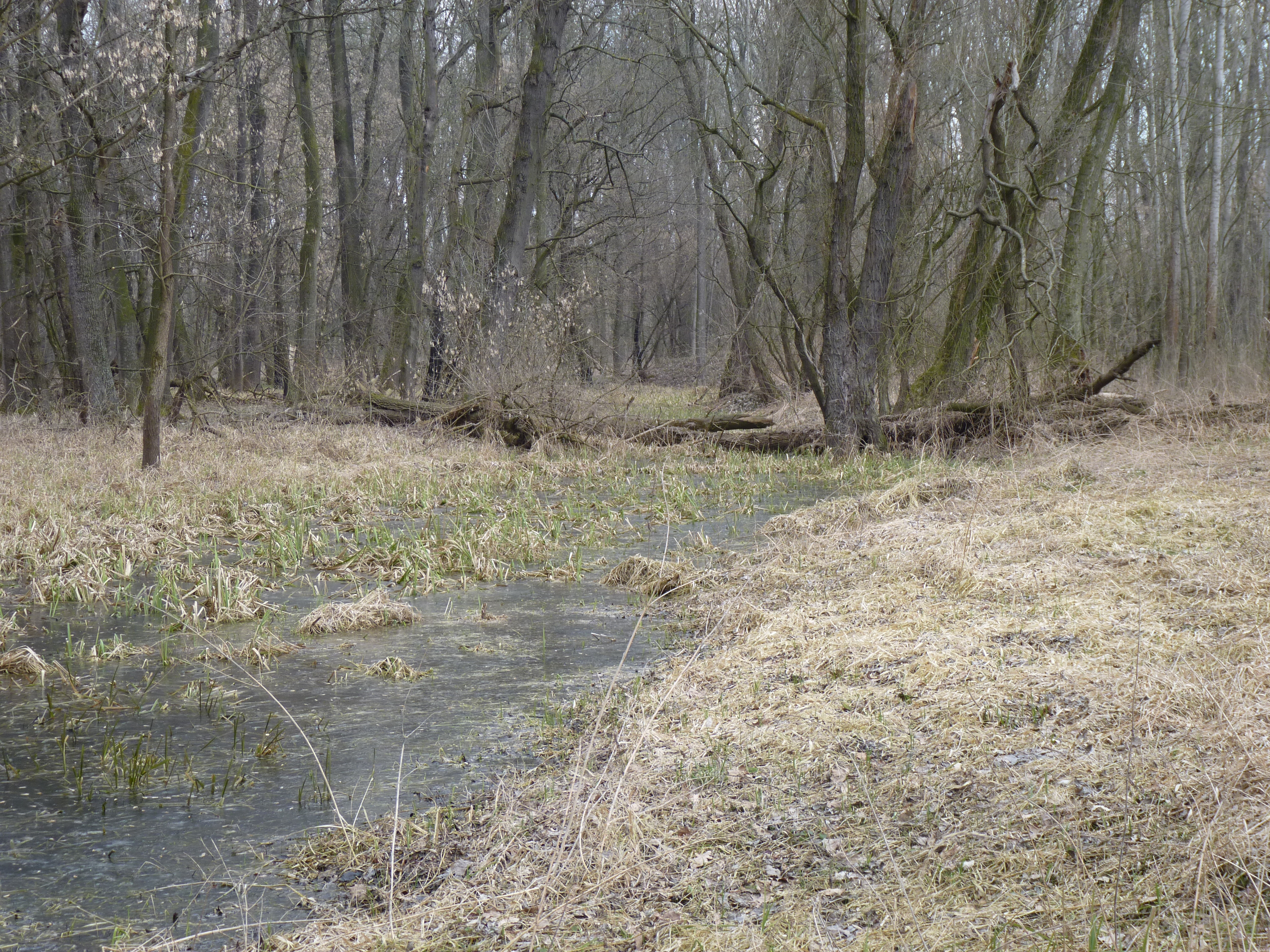 Dolní mušovský luh (natural monument), Brno-Country District, South Moravian Region, Czech Republic Project: Chráněná území